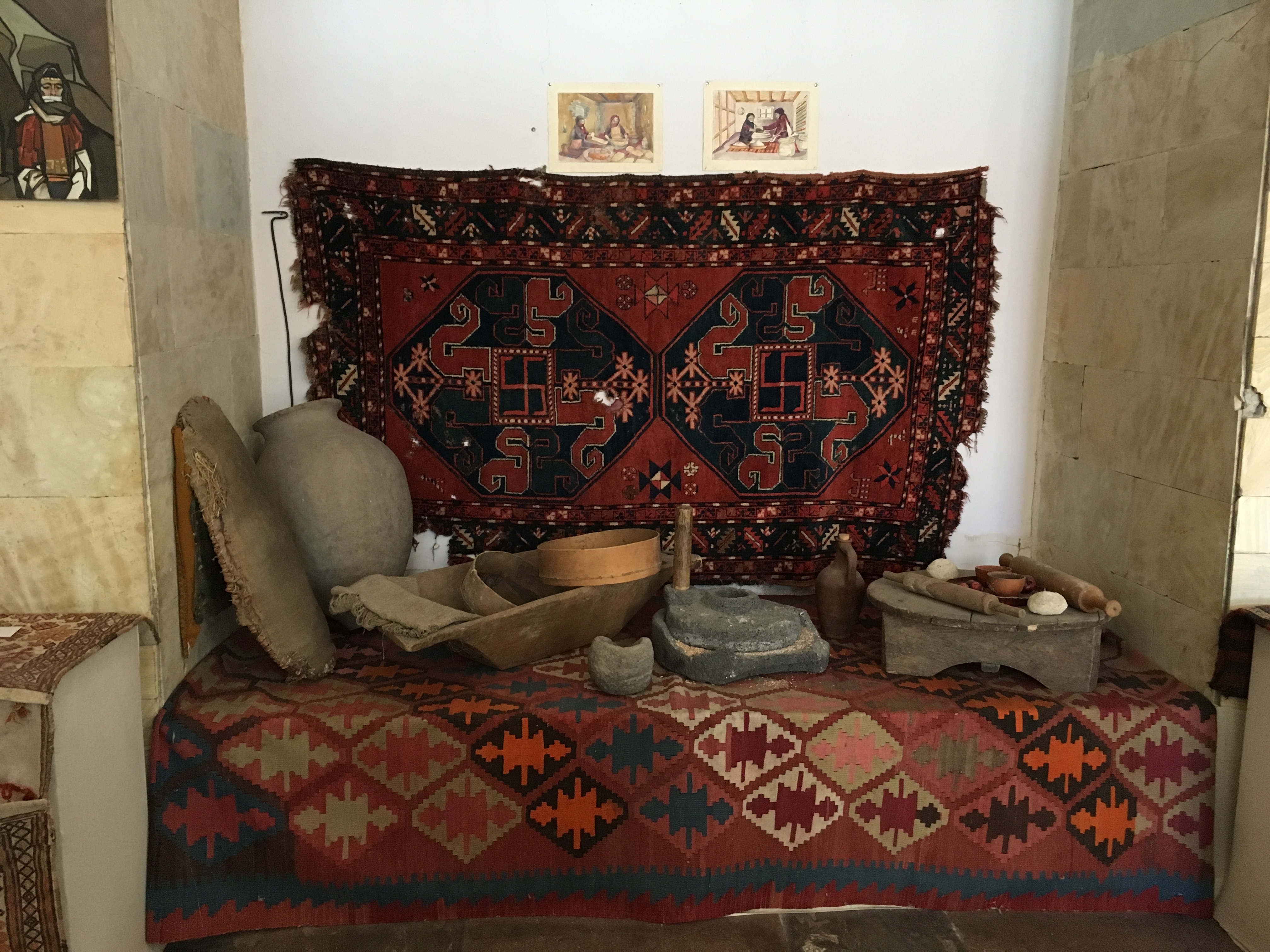 The Collection of the Local Lore Museum of Goris.